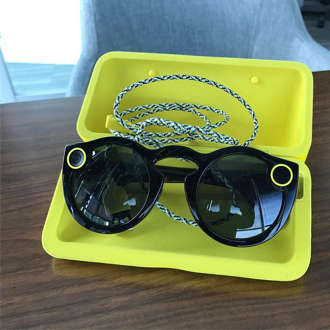 Black Spectacles with a lanyard in a yellow charging case.